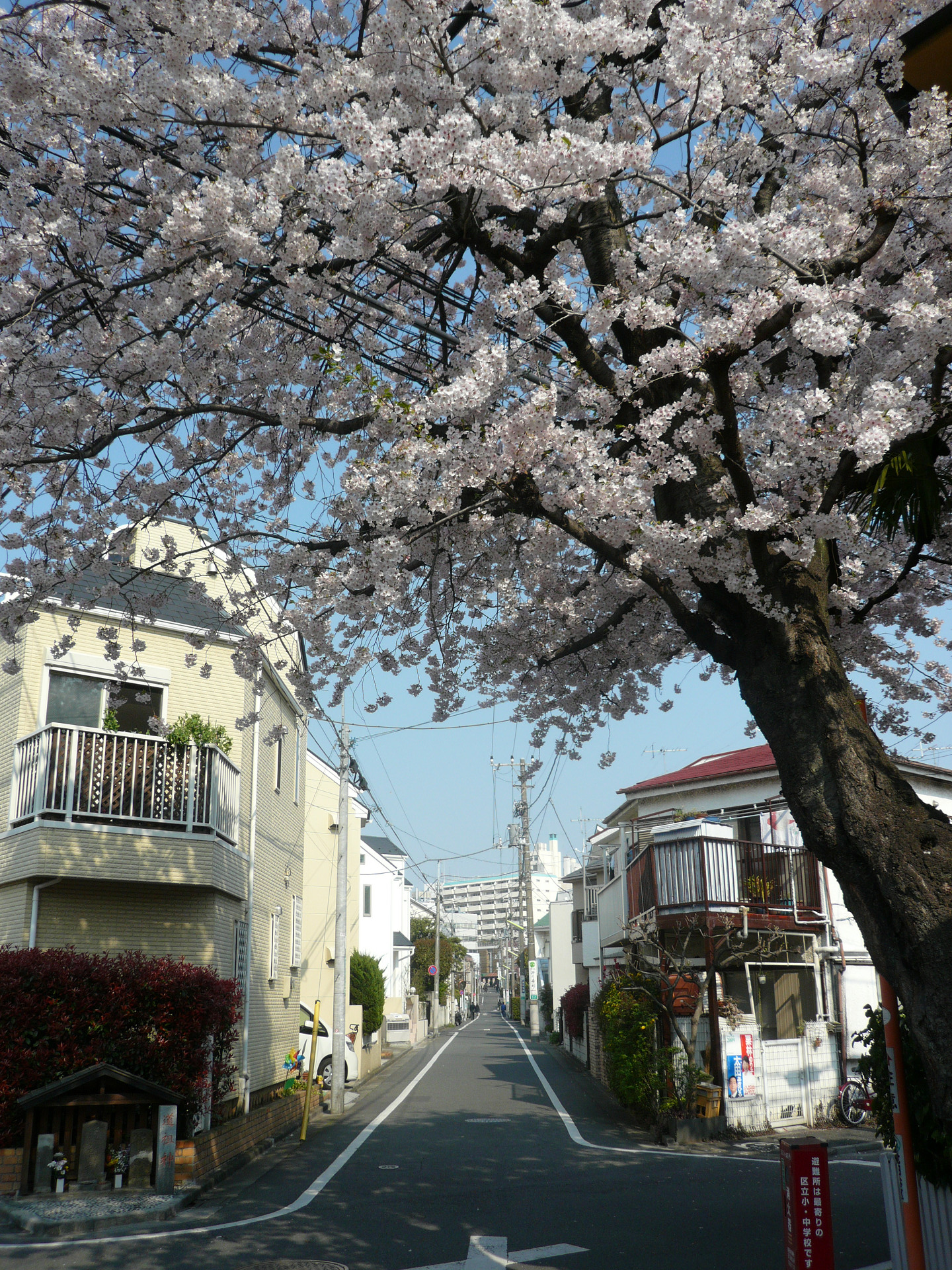 Okusawa 3-Chōme, Setagaya-ku, Tokyo, Japan